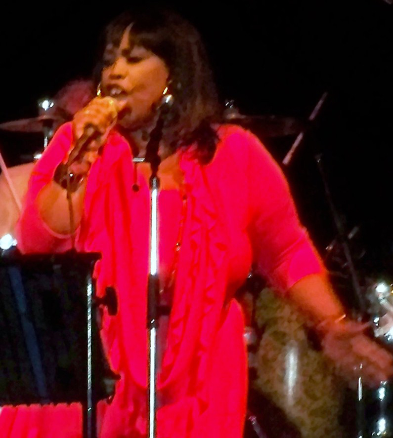 Crop of File:Rubygf.JPG